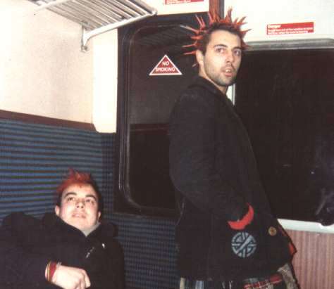 Graham Burnett (aka quercus robur) lying down and Polly, circa 1986